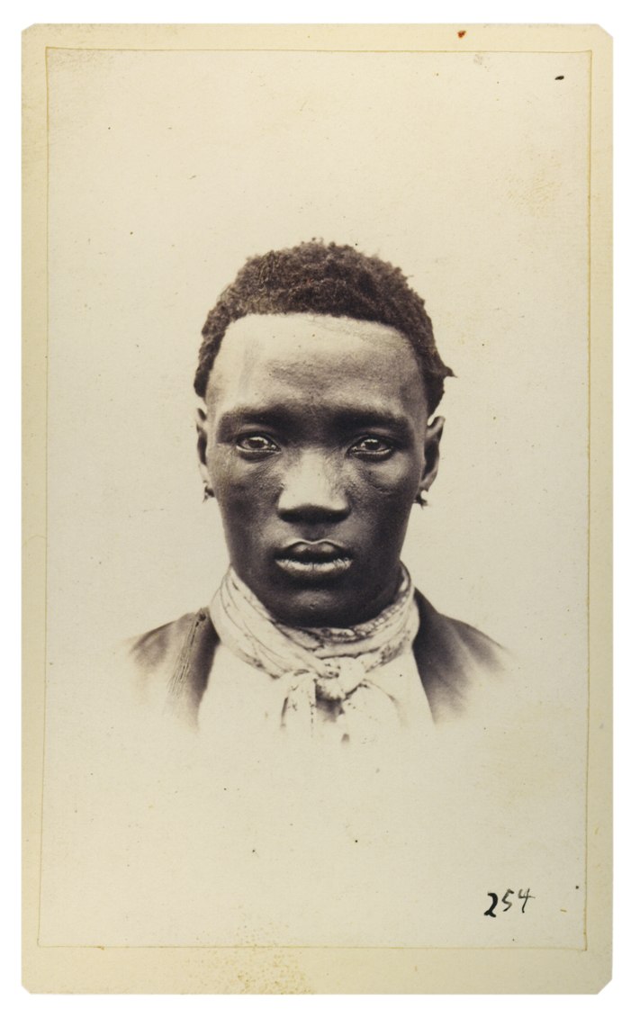 Sebele I, chief of the Kwena tribe of Botswana (1892-1911).